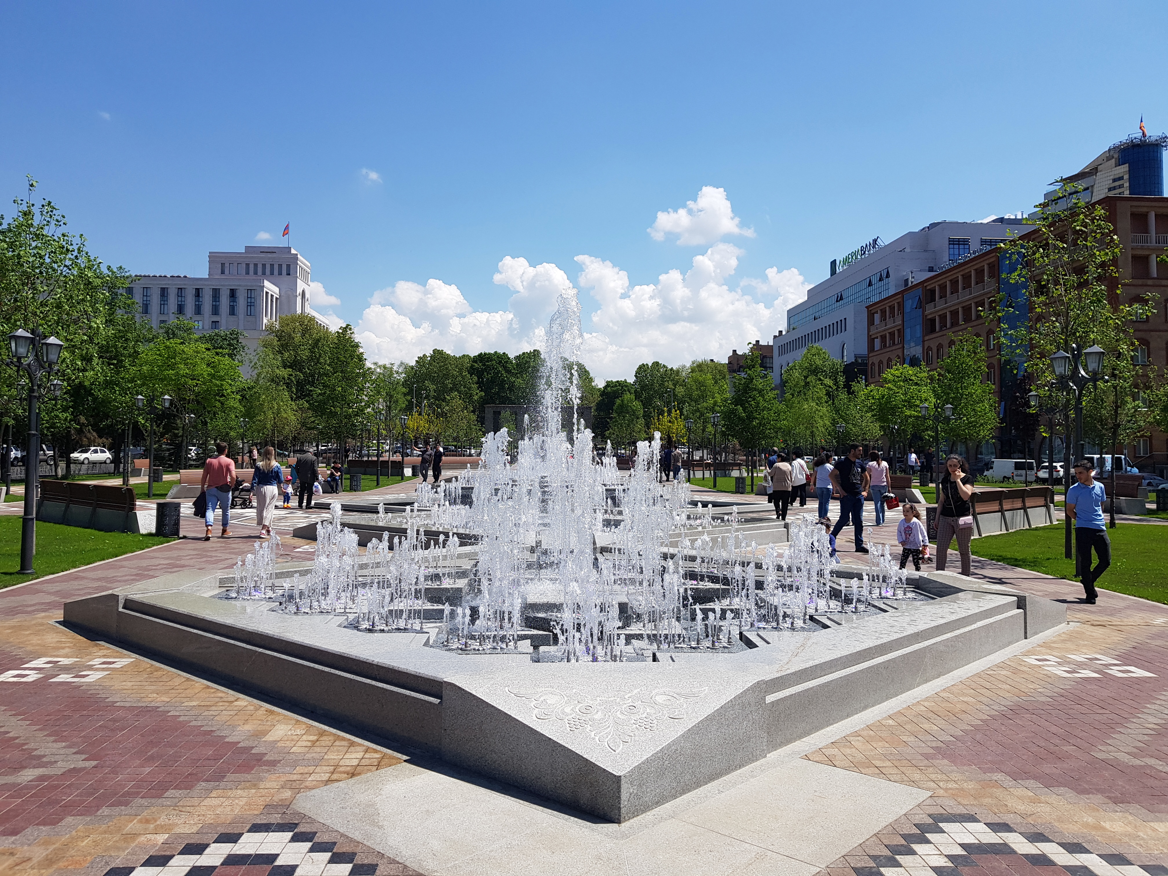 Yerevan 2800th anniversary park